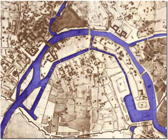 River Moskva, downtown Moscow, 1775 canal project